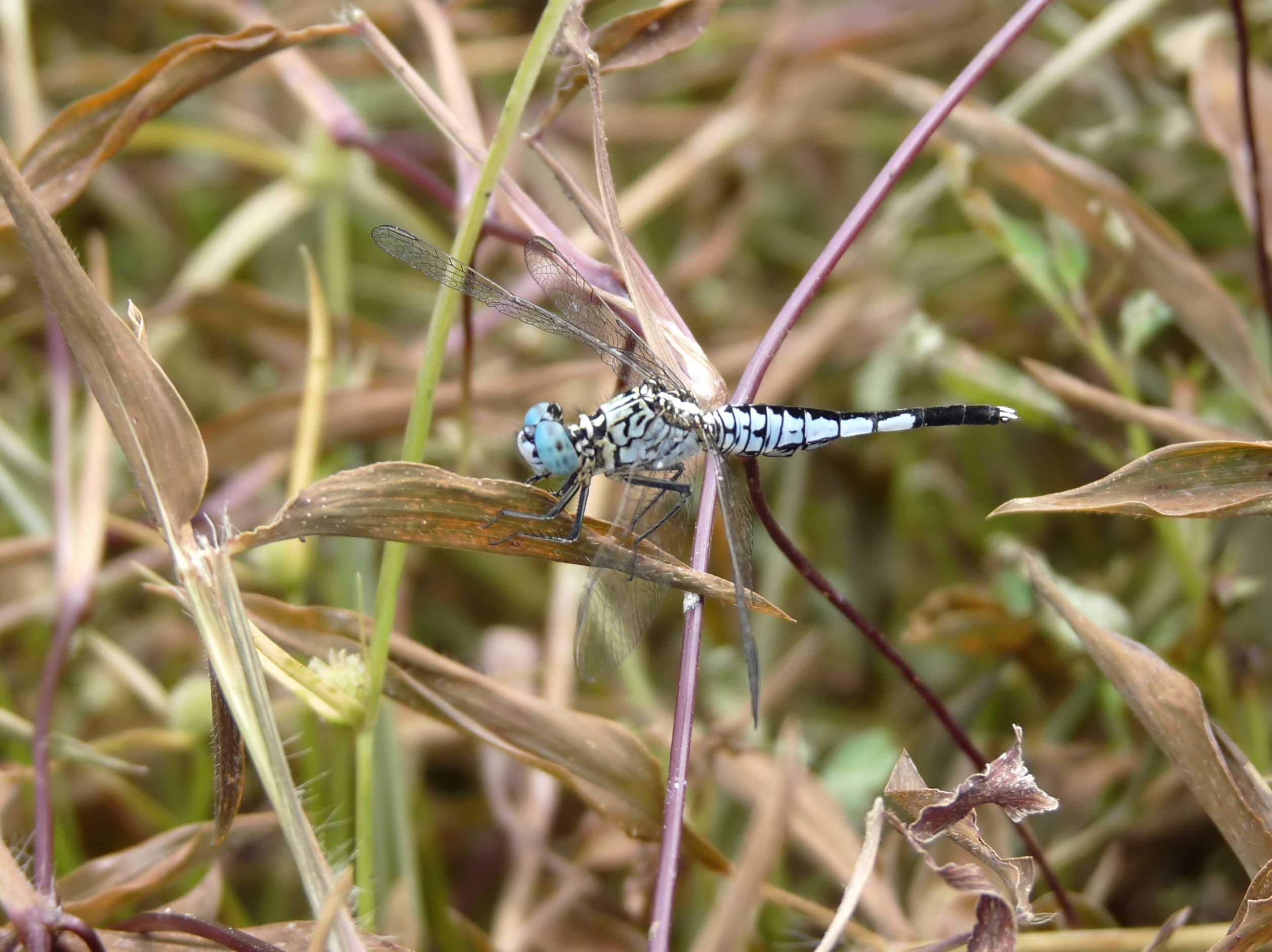 Acisoma panorpoides, male Acisoma panorpoides, the Grizzled Pintail or Trumpet Tail, is a species of dragonfly in family Libellulidae. It is small blue dragonfly with bulged abdomen, closely associated with water, commonly found among reeds in ponds and tanks. The male adult has blue marking but the female has yellow marking. The species has a very weak and short flight. Breeds in marshes associated with tanks and ponds. Taken at Kadavoor, Kerala, India.